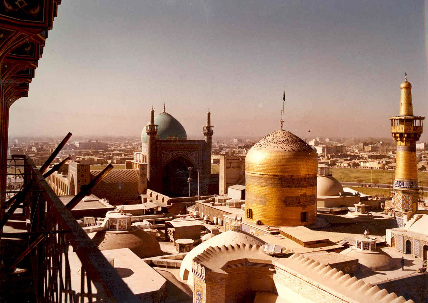 Golden Dome of Imam Reza shrine and Goharshad Mosque - 1976